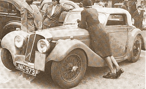 1939 Atalanta 2 litre Drop Head Coupe by Abbott of Farnham